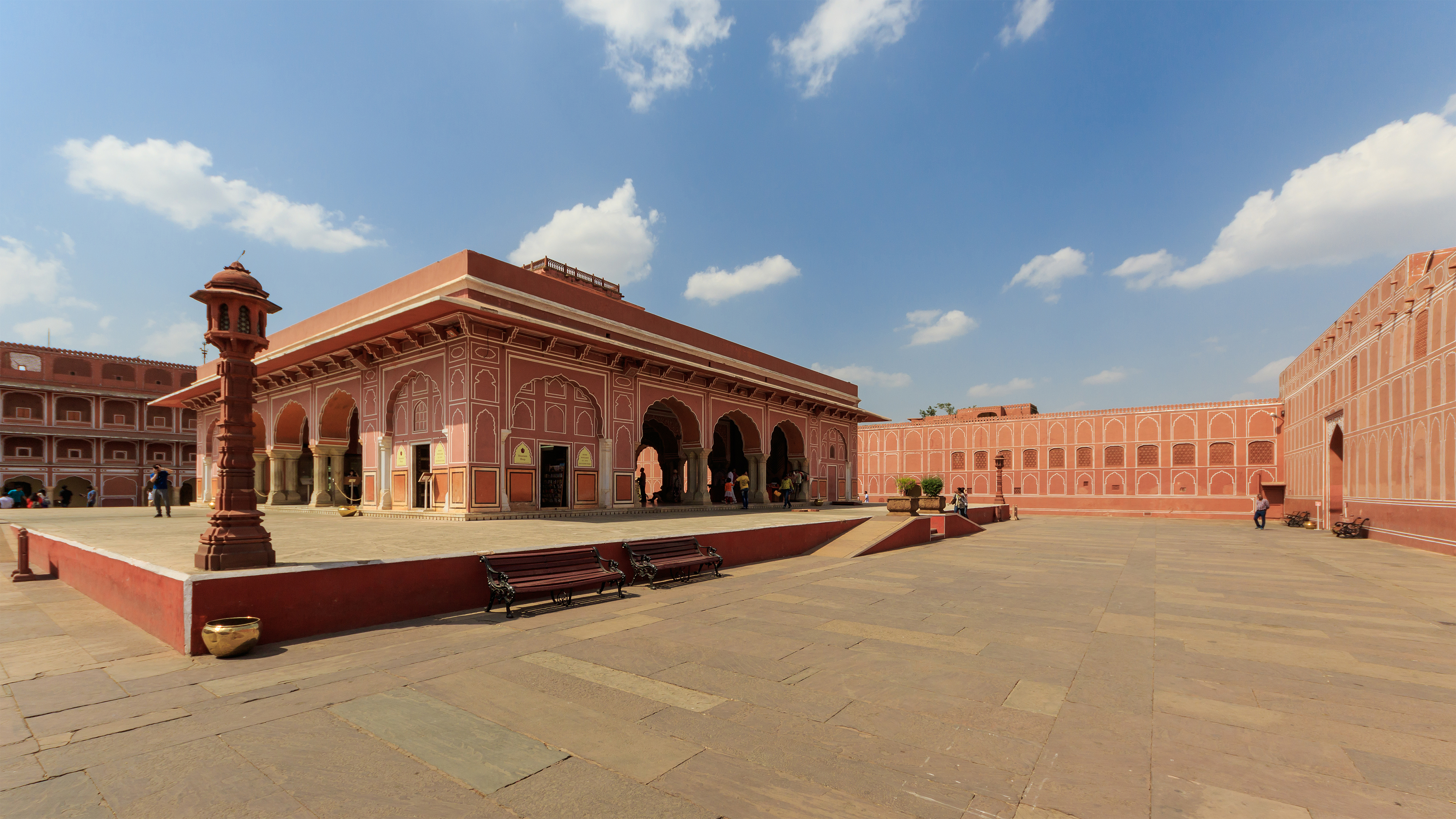 Buildings of the City Palace in Jaipur, India